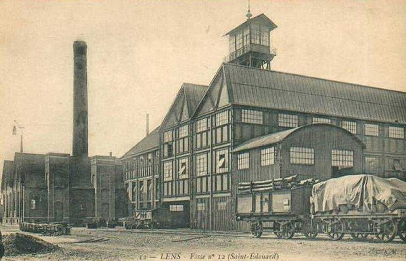 Coalpit n° 12, Compagnie des mines de Lens, Loos-en-Gohelle, Pas-de-Calais, France.